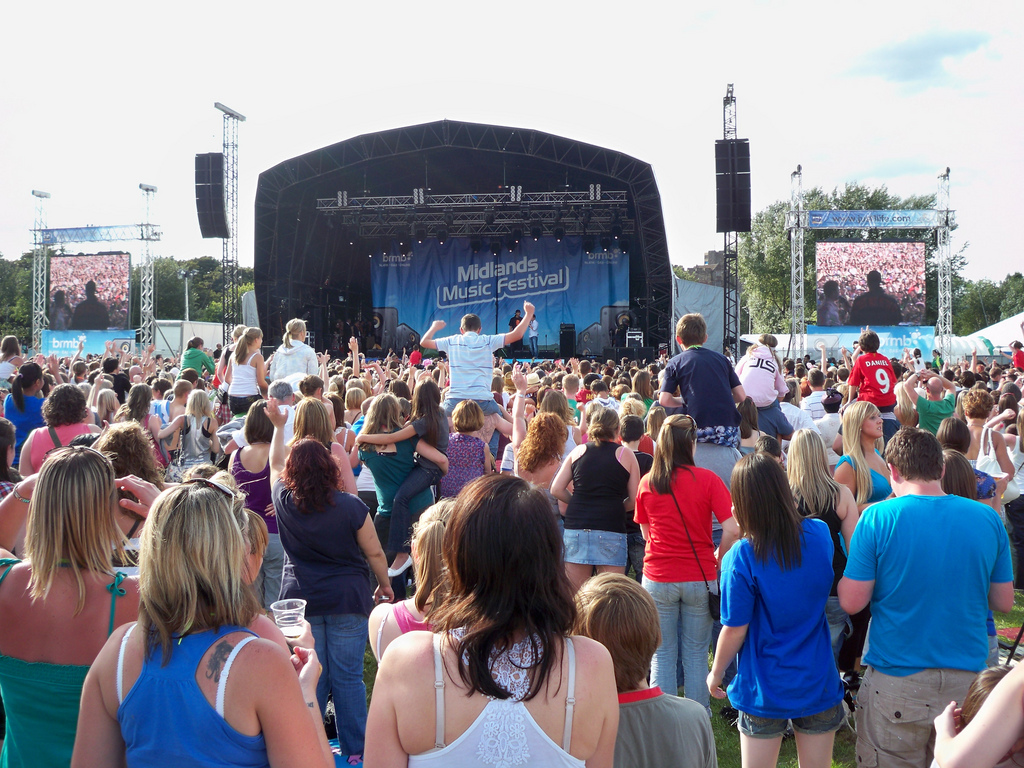 The Midlands Music Festival 2009 at Tamworth Castle Ground